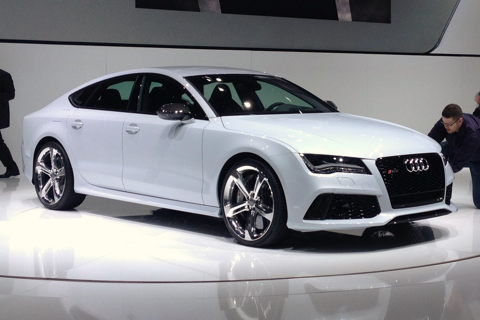 2013 North American International Auto Show Detroit, Michigan